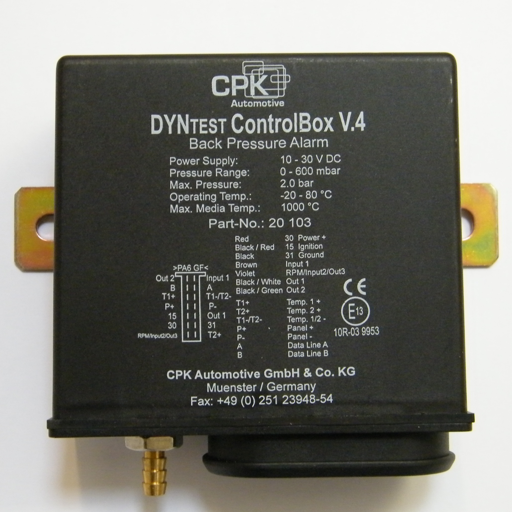 Common Data Logger for Diesel Particulate Filters. ControlBox V4 of the DYNTEST System. Messures e.g. temperature & back pressure